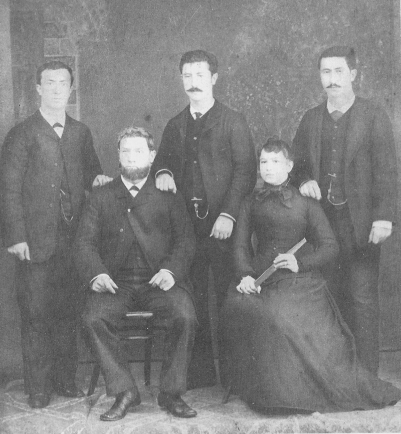 Ramon Artola with his daughter and sons